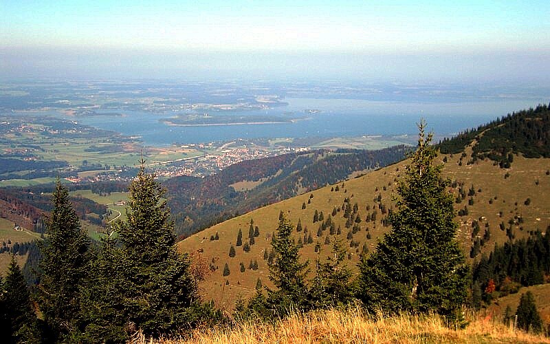 Chiemsee - Bavaria - Germany